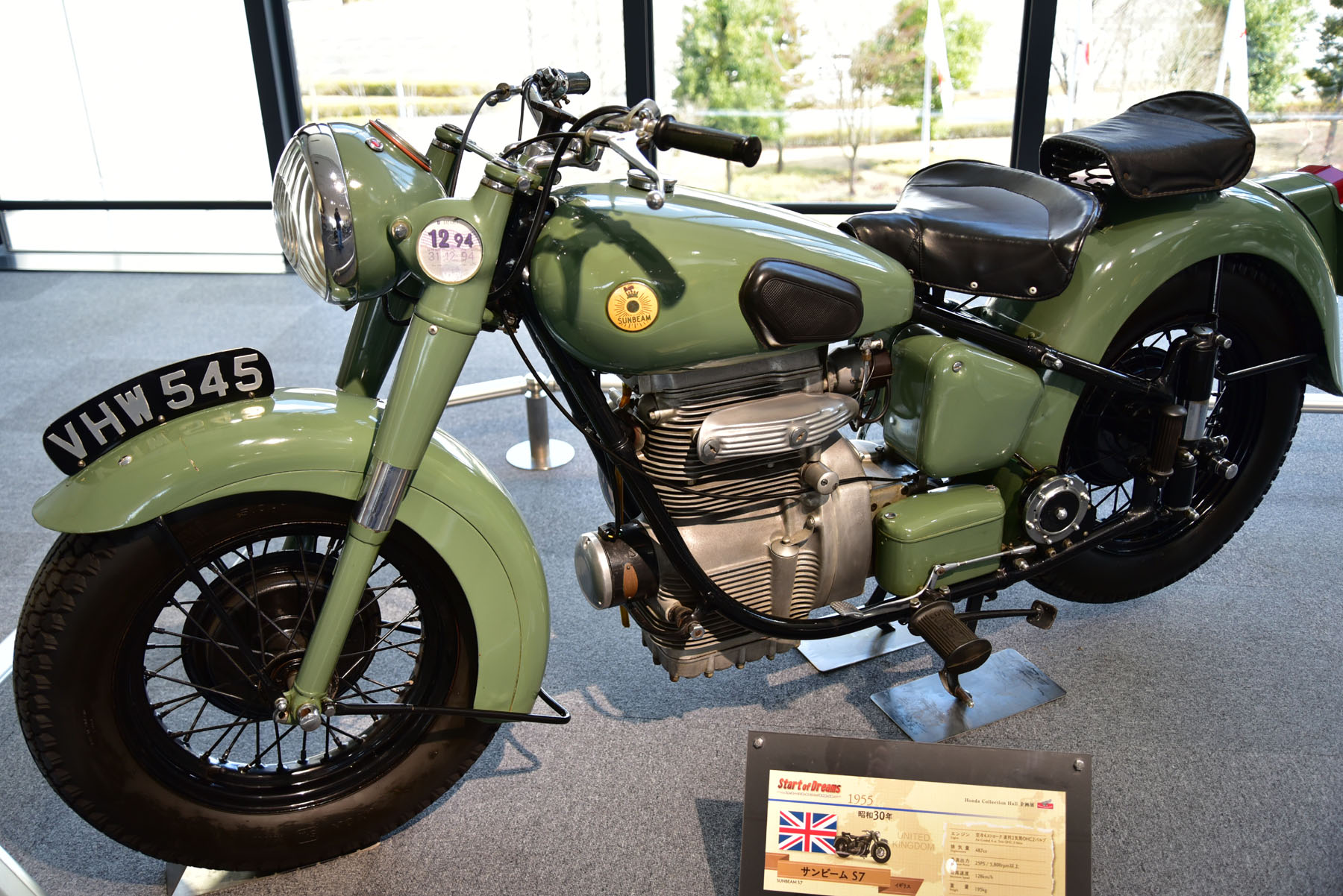 Sunbeam S7 (1955)